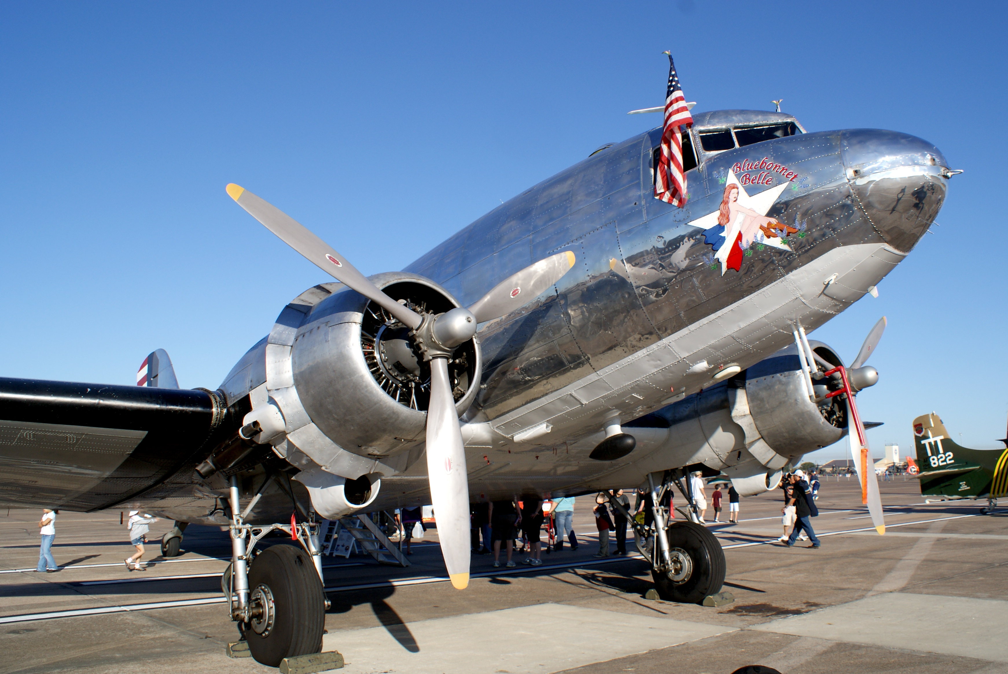 Skytrain C-47B serial number 43-49942 that was built in 1944, and belongs to the Highland Lakes Squadron Commemorative Air Force based at Burnet Airport, Burnet, Texas.